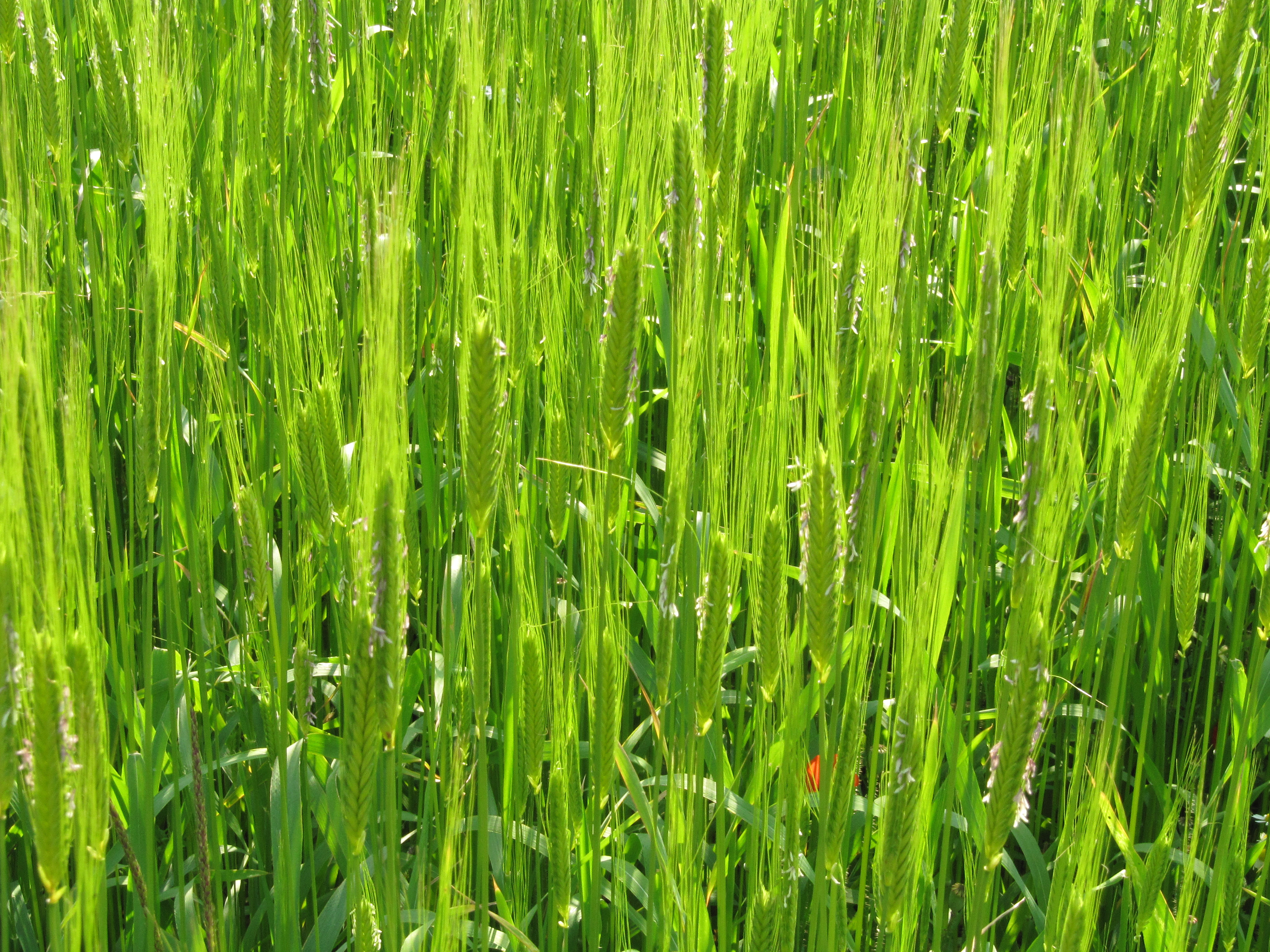 Triticum monococcum